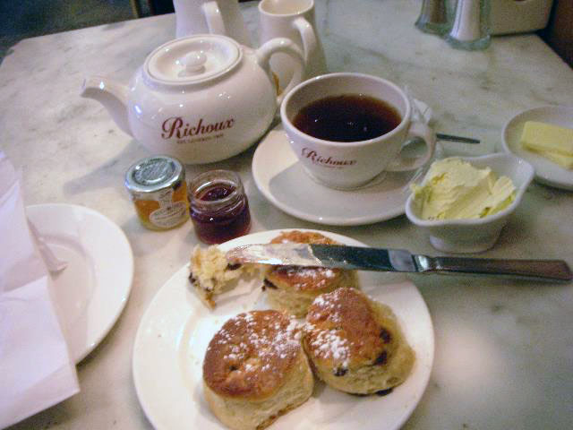 At Richoux, in London.